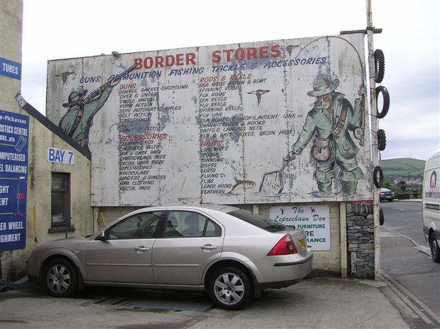 Border Stores notice, Lifford The anglers are well catered for